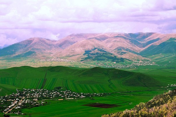 Chambarak, Armneia